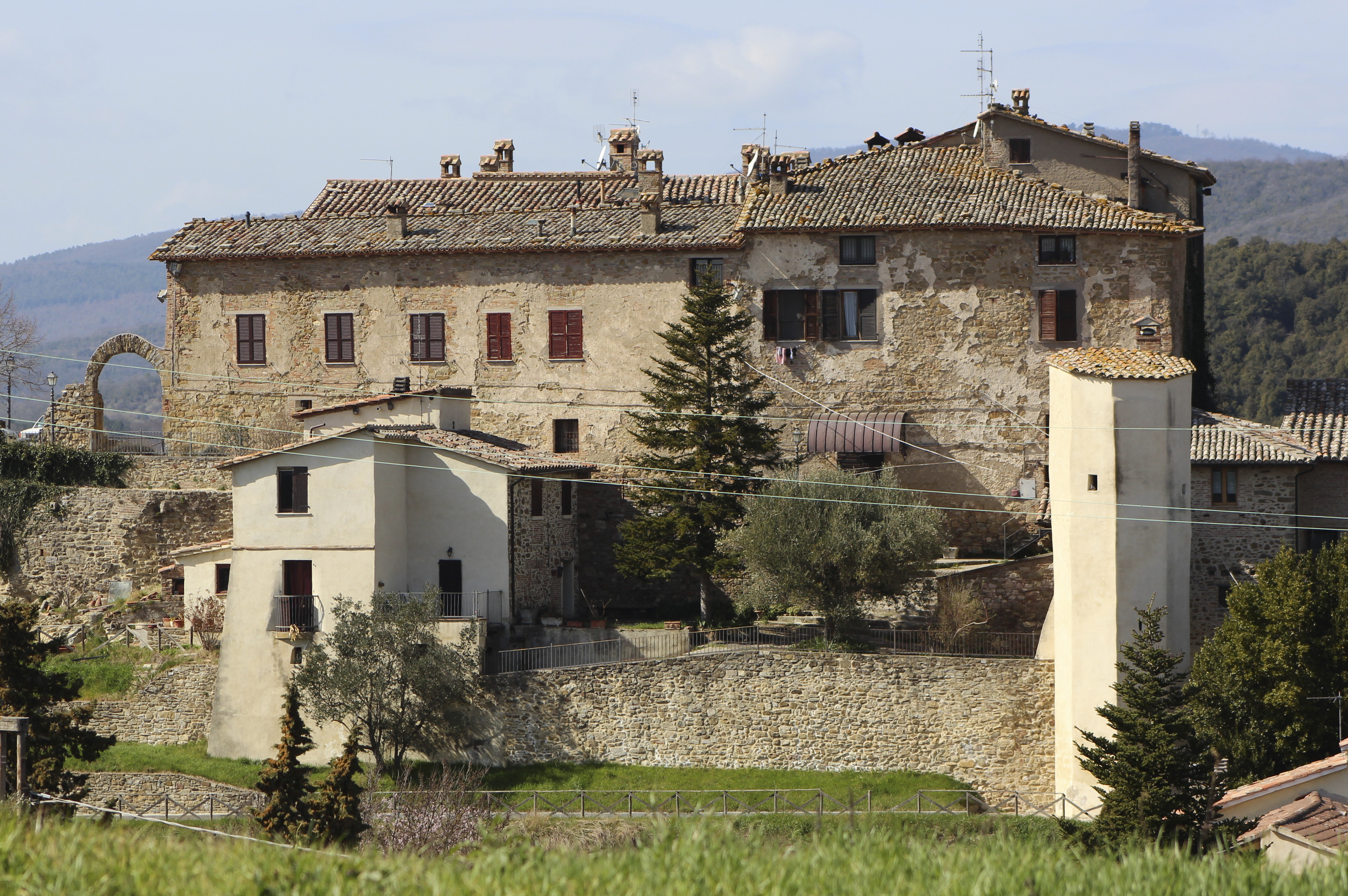 Castle Castello di Migliano, Migliano, hamlet of Marsciano, Umbria, Italy